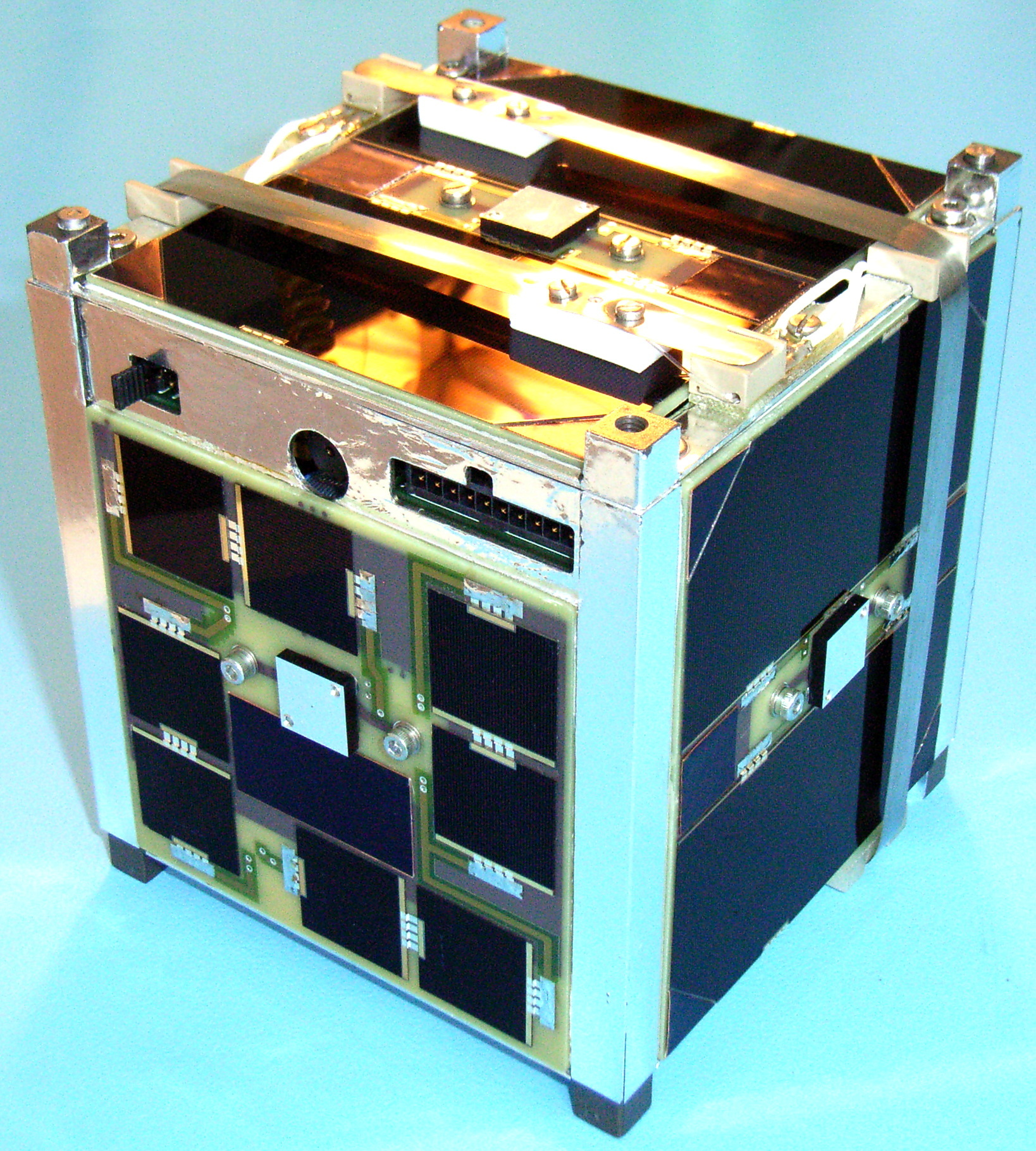 BEESAT flight model after acceptance testing.